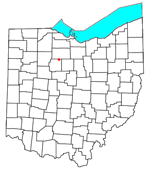 Locator map of the unincorporated community of Mexico in Wyandot County, Ohio, United States.